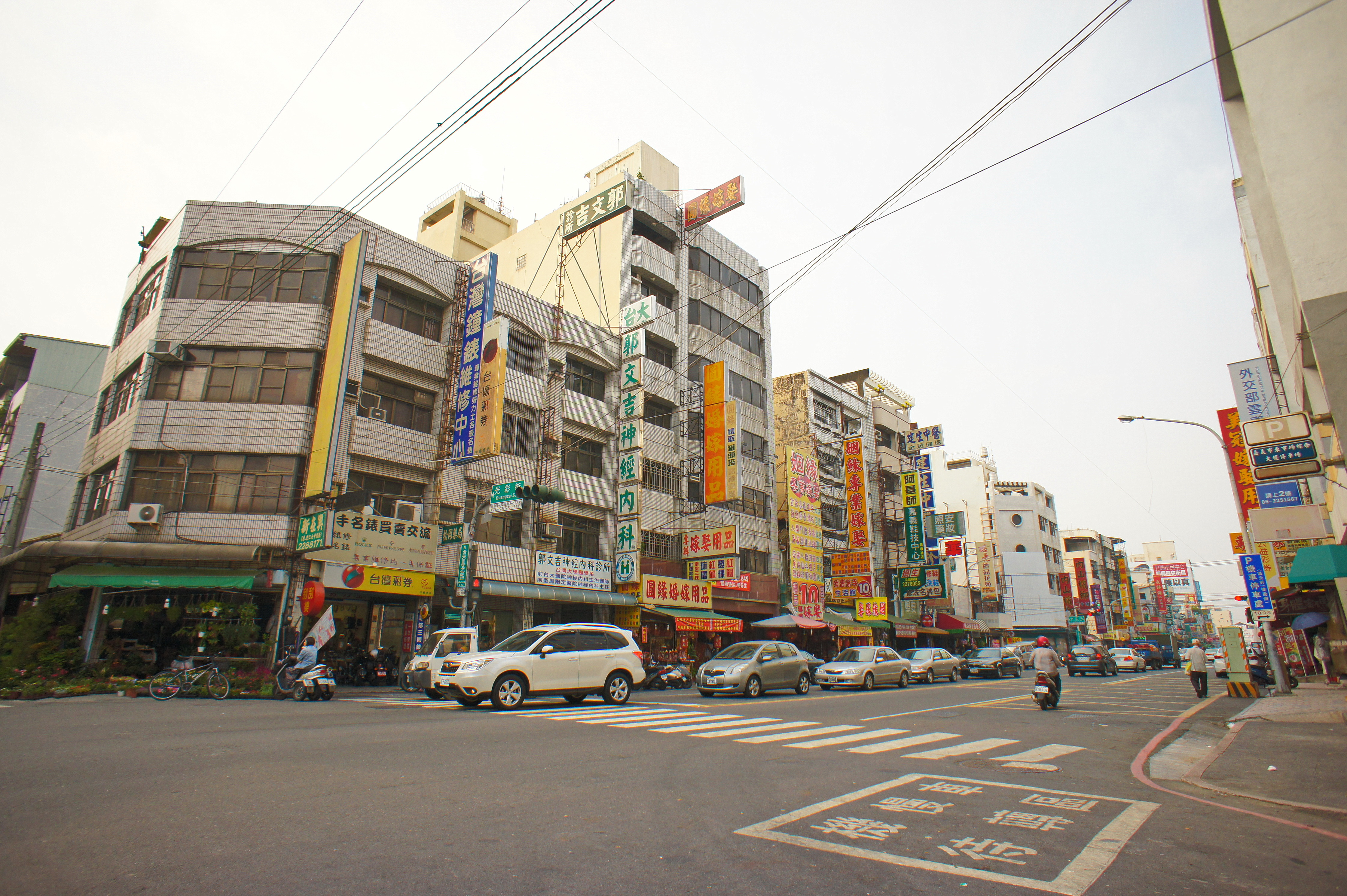 Wufeng North Road near Guangcai Street, Chiayi City, Taiwan.